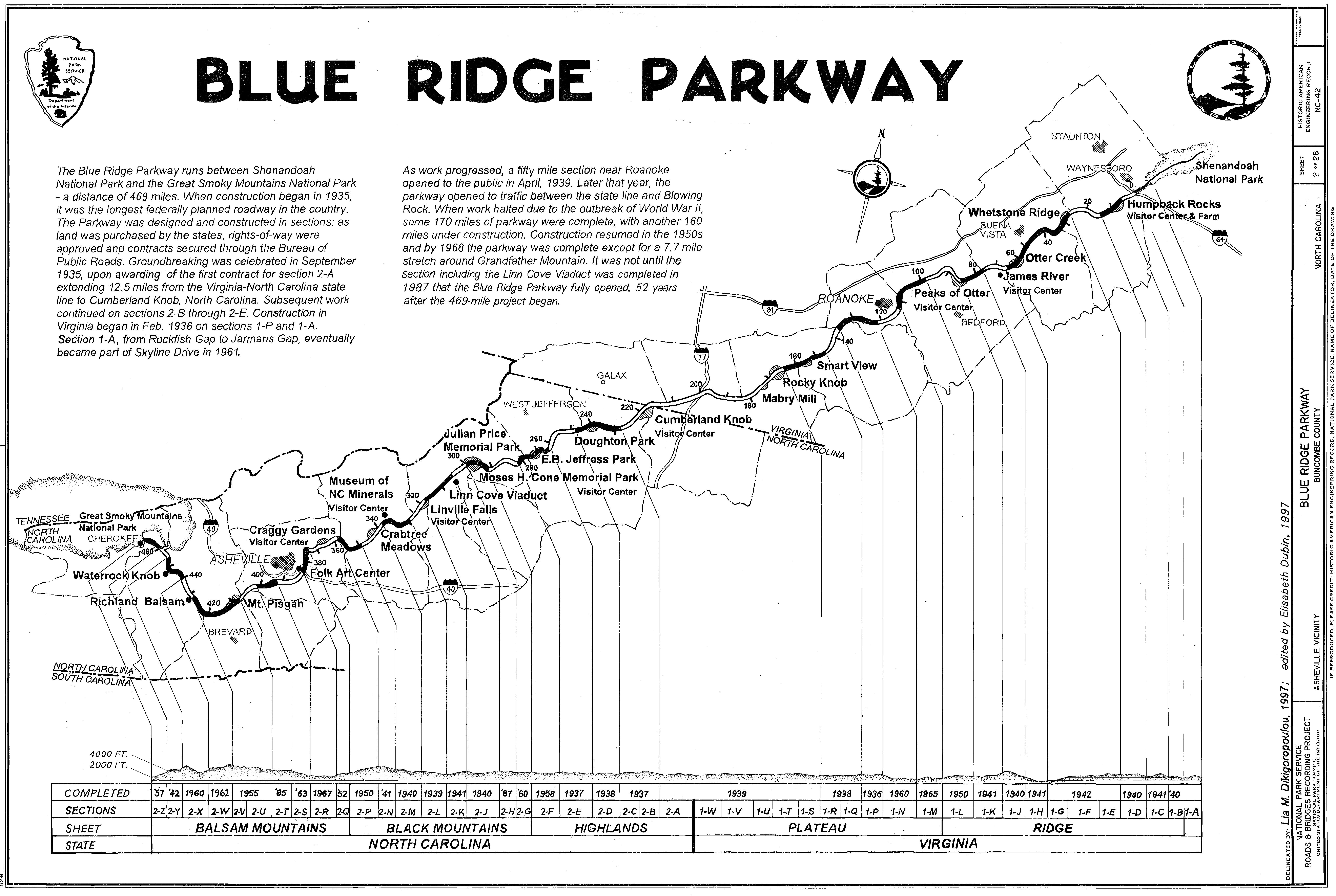 Blue Ridge Parkway, in Virginia and North Carolina, USA - A route schematic with elevations and points of interest. This map was drawn in 1997. It is in the public domain because it was produced by the United States Government. This is a cropped image of drawing #2 from the Library of Congress online collection; see catalog information below. Item Title Blue Ridge Parkway, Between Shenandoah National Park & Great Smoky Mountains, Asheville vicinity, Buncombe County, NC Alternate Title Blue Ridge Parkway Medium Measured Drawing(s): 28 (24 x 36) Photo(s): 243 (4 x 5 in.) Data Page(s): 344 plus cover page Color Transparencies: 17 Call Number HAER NC,11-ASHV.V,2- Created/Published Documentation compiled after 1968. Notes Survey number HAER NC-42 Unprocessed field note material exists for this structure (N517). Building/structure dates: 1935 initial construction Part of building/structure is in Cherokee, Swain County, NC. Subjects NORTH CAROLINA--Buncombe County--Asheville vicinity agriculture "Mission 66" program recreation Related Names Pratt, Dr. Joseph Hyde Byrd, Sen. Harry Flood Pollard, Gov. Johnathan MacDonald, Thomas Radcliffe, Sen. George L. Strauss, Theodore E. Quin, Richard, historian Weiner, Natascha, delineator Stormont, Matthew, delineator Rosa, Carlos Jimenez, delineator Haas, David, photographer Cuthbertson, Jennifer K., delineator Dubin, Elisabeth, delineator Reproduction Number [See Call Number] Collection Historic American Engineering Record (Library of Congress) Repository Library of Congress, Prints and Photograph Division, Washington, D.C. 20540 USA DIGID CARD # NC0478